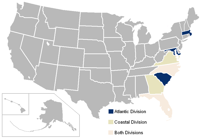 derived from [1]; map of states with Atlantic Coast Conference schools (and their division); contains fair-use logo